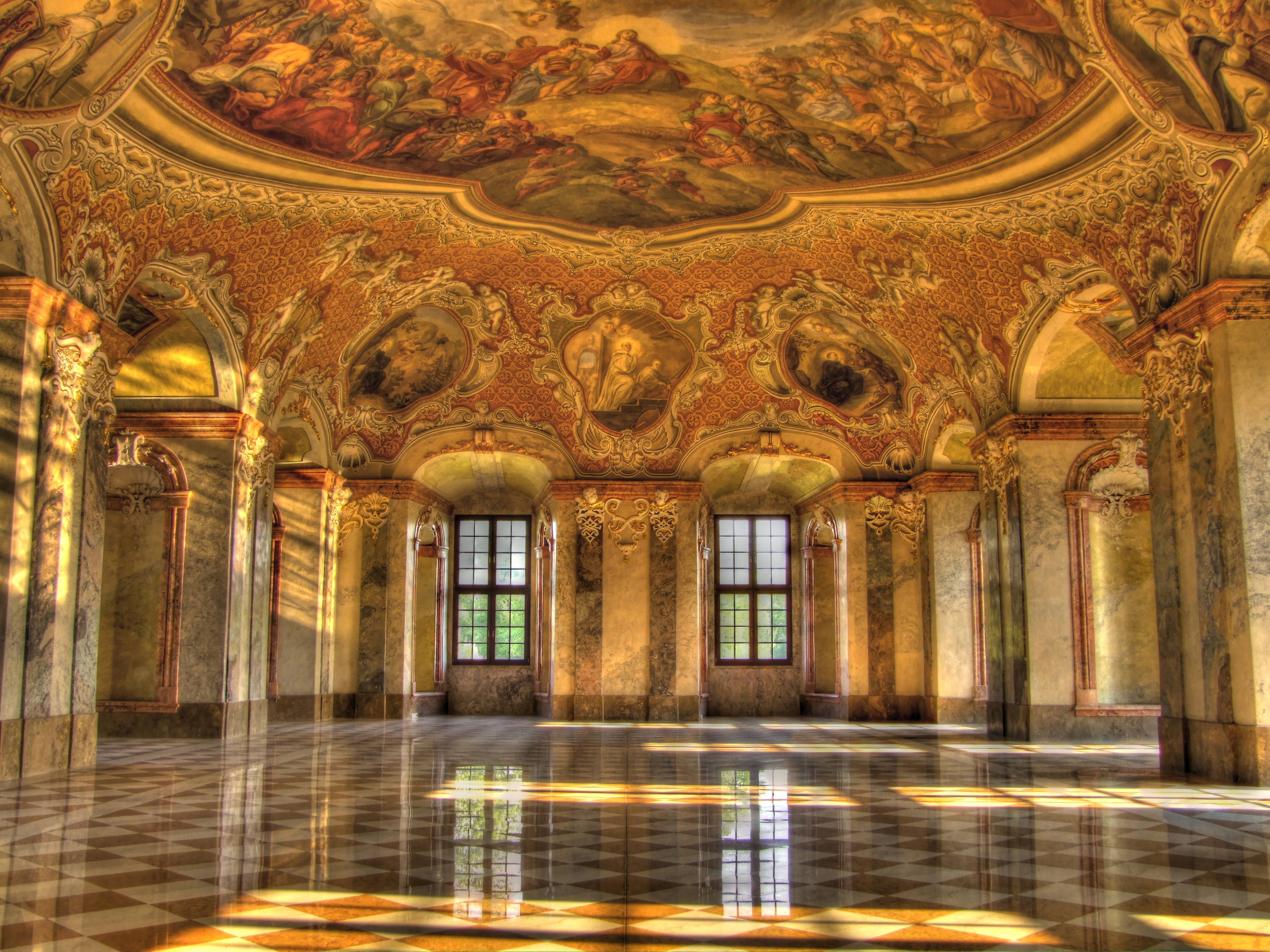 Main refectory in Lubiąż Abbey.